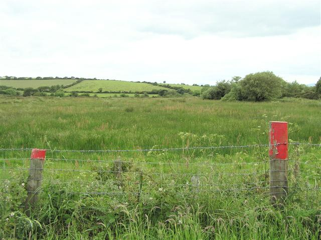 Tullymoan Townland. Looking west towards Donegal